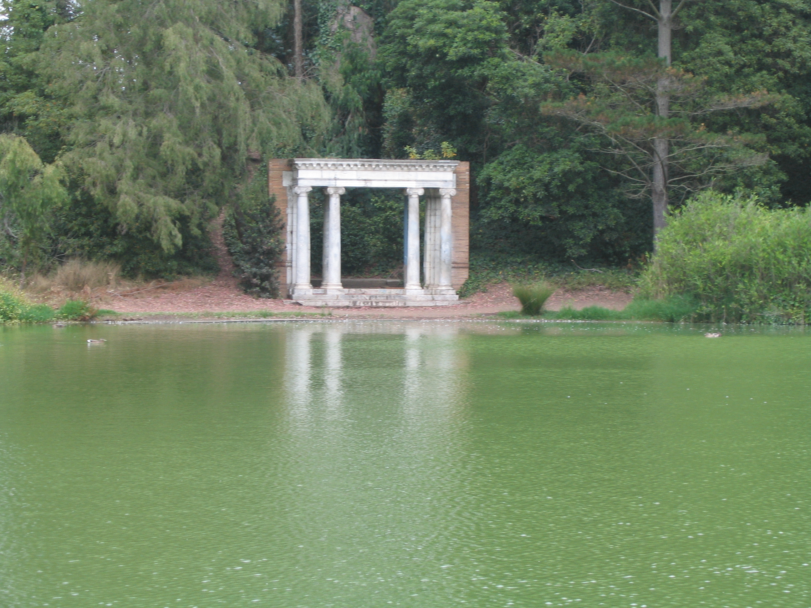 Lloyd Lake. This is a front porch standing without a house — all that remains of a Nob Hill house destroyed in the 1906 earthquake. It is the only public memorial to the disaster in the City, and is on the lake in Golden Gate Park. The Neoclassical portal is sited as an architectural folly, a traditional element in the English landscape garden style.